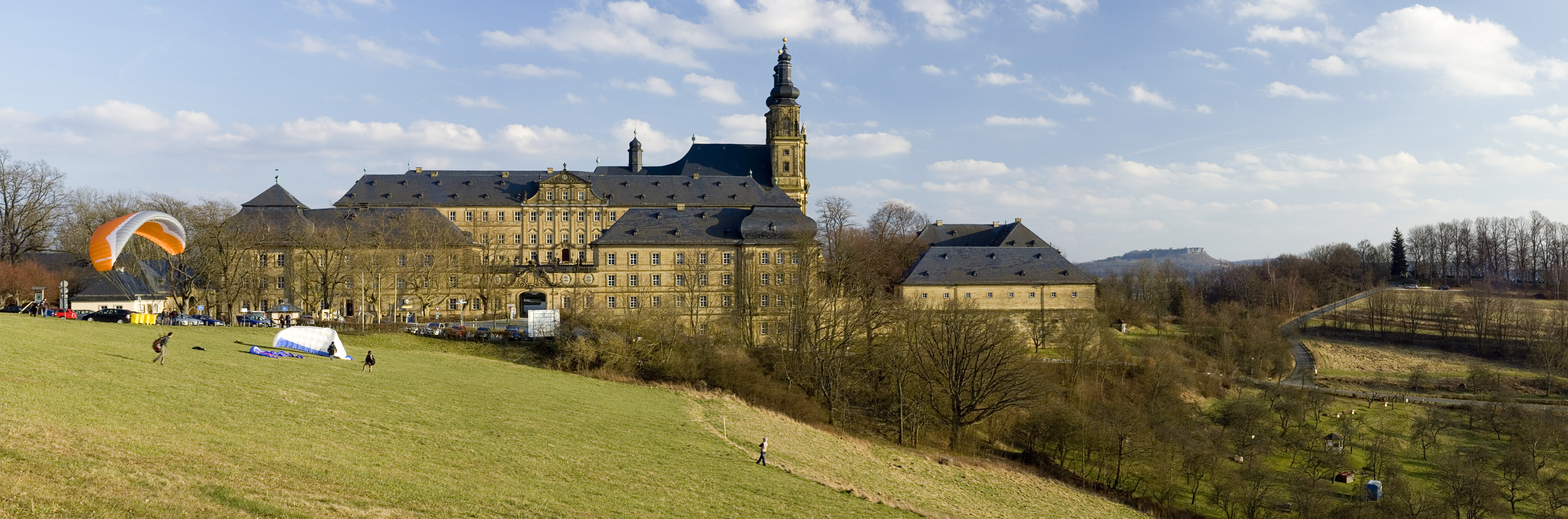 Banz Abbey near Bad Staffelstein, Germany.